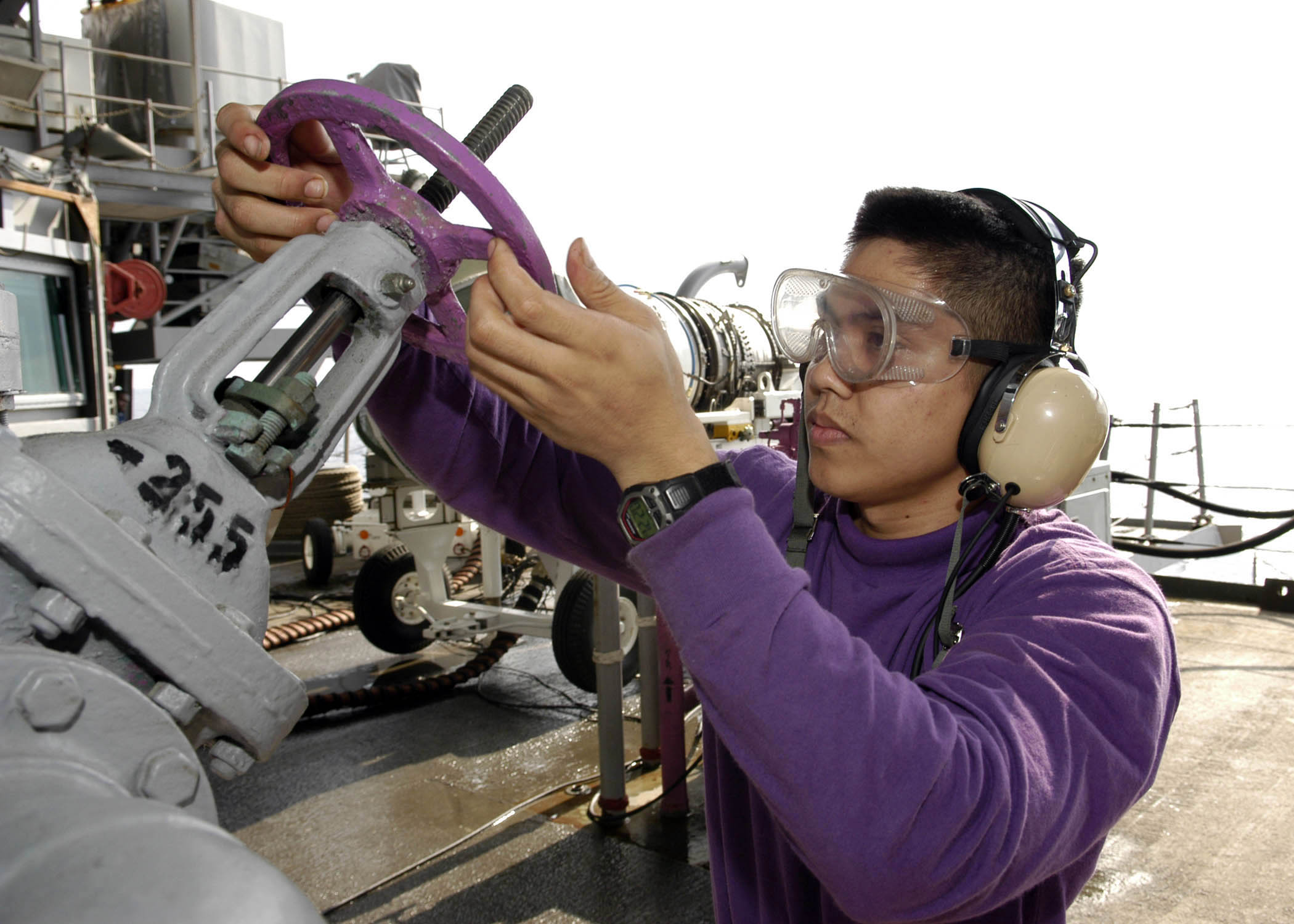 Atlantic Ocean (Nov. 7, 2005) - Airman Rod Tiong opens a fuel valve before a jet engine test on the fantail of the nuclear-powered aircraft carrier USS Enterprise (CVN 65). Enterprise and embarked Carrier Air Wing One (CVW-1) are currently underway in the Atlantic Ocean conducting Tailored Ship's Training Availability (TSTA). U.S. Navy photo by Journalist 2nd Class Daniel Vaughan (RELEASED)